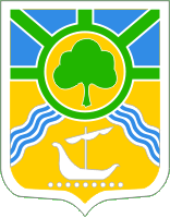 Coat of arms of Yasynuvata